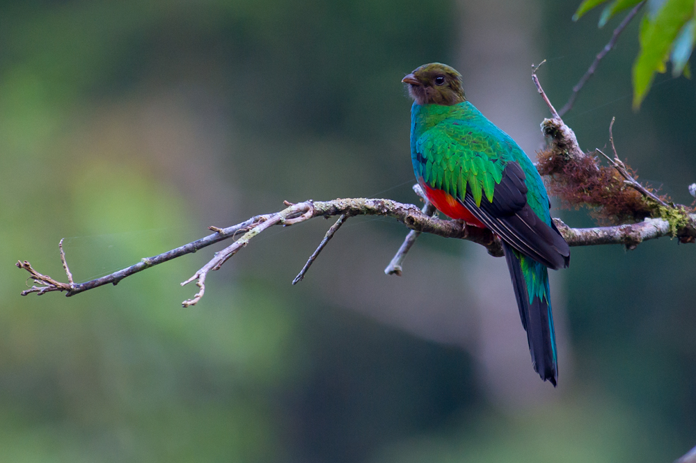 Pharomachrus auriceps, Golden-headed Quetzal